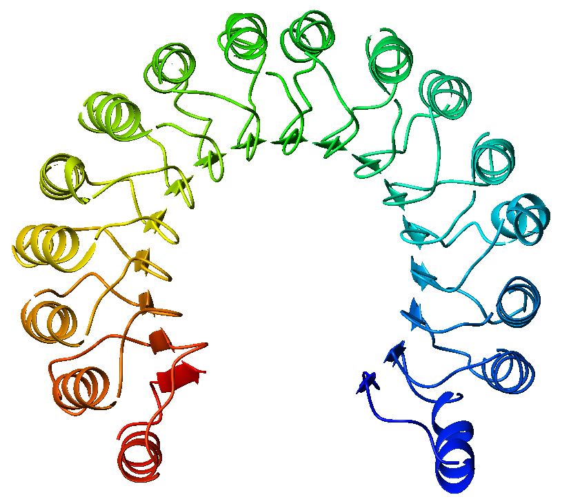 Top view of ribbon diagram of ribonuclease inhibitor (PDB accession code 2BNH). Made with MOLMOL